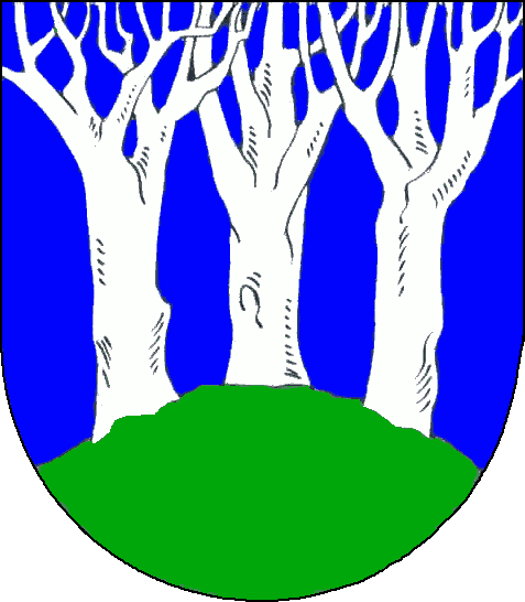 Coat of arms of the municipality Nutteln in Schleswig-Holstein, Germany.